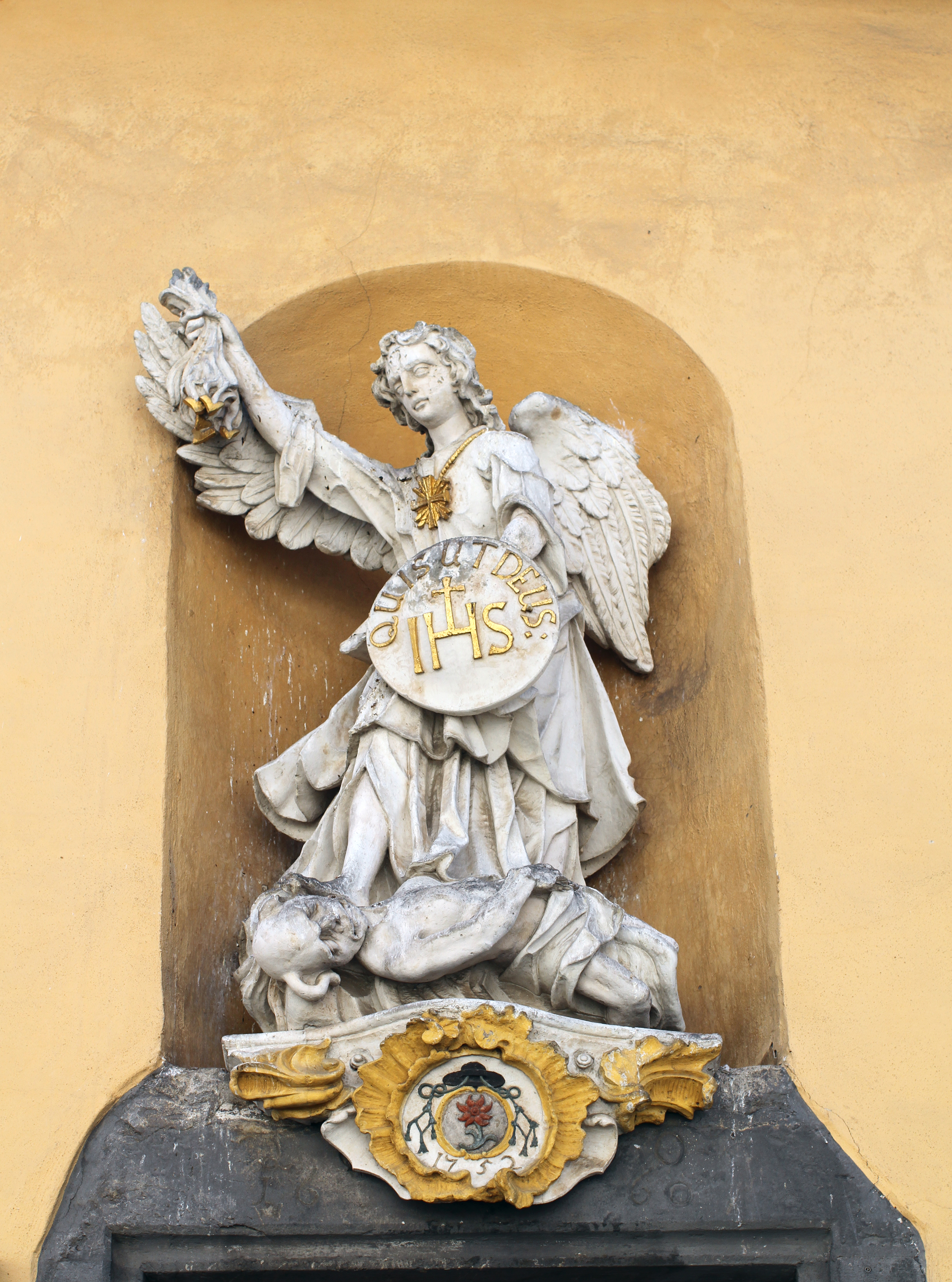 Sculpture outside chapel Saint Michael Koblenz, Germany